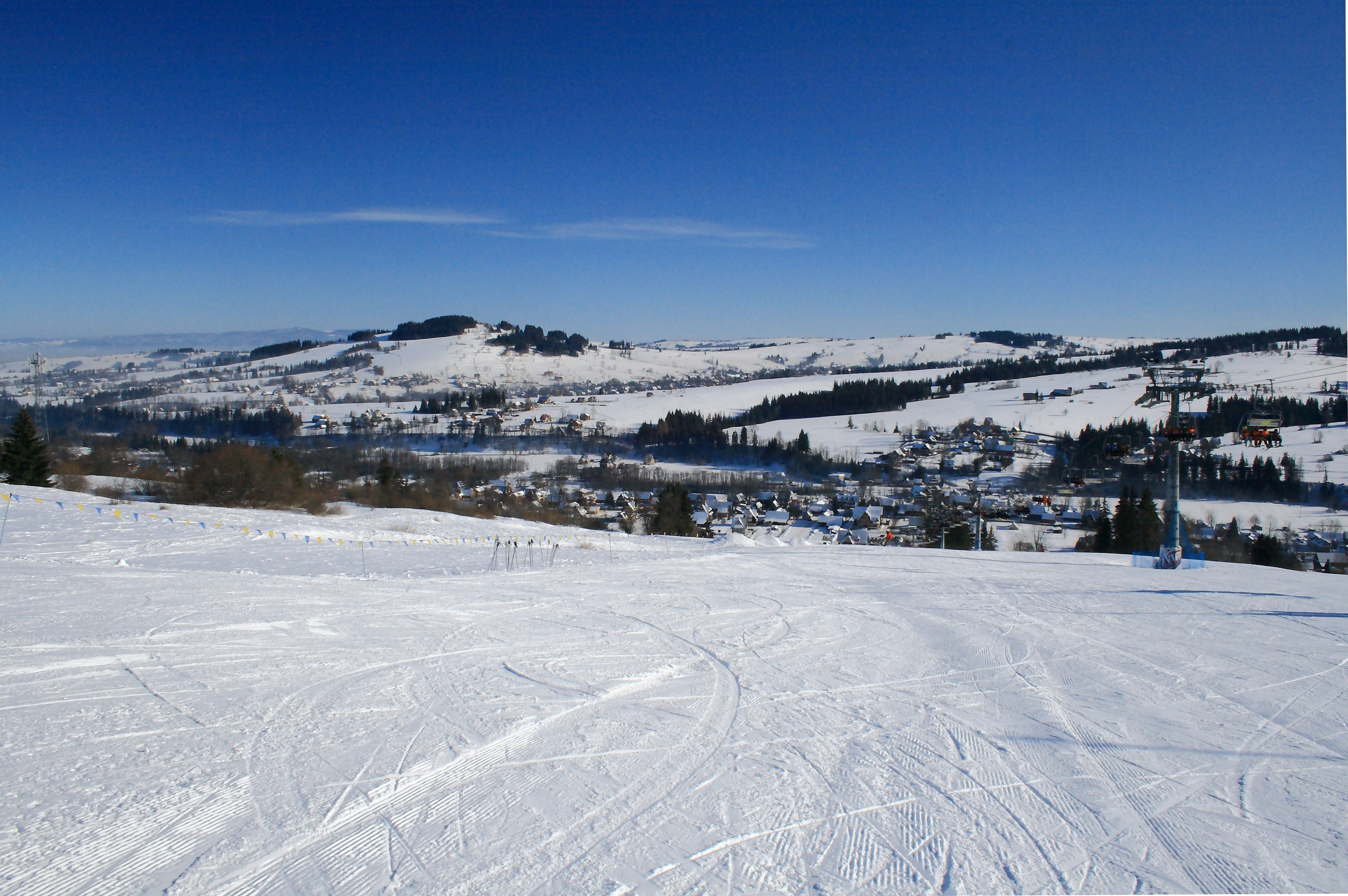 Ski Center Witów-Ski in Witów near Zakopane